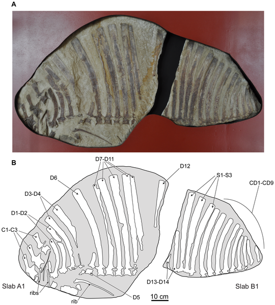 Photograph and drawing of the holotype of Ctenosauriscus koeneni. Photograph (A) and interpretative drawing (B) of slabs A1 and B1, forming together the part. Abbreviations: C, cervical vertebra; CD, caudal vertebra; D, dorsal vertebra; S, sacral vertebra.